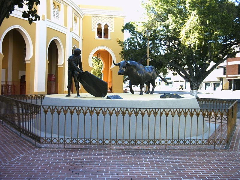 Statue next to the bullring of Maracay at Plaza César Girón in Venezuela.